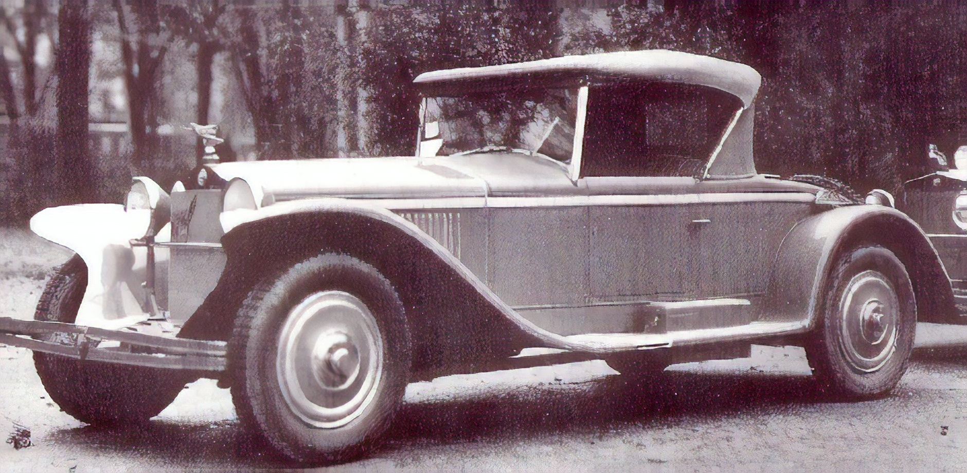 A car with an Alfa Romeo chassis and a Garavini body from the 1920s-1930s